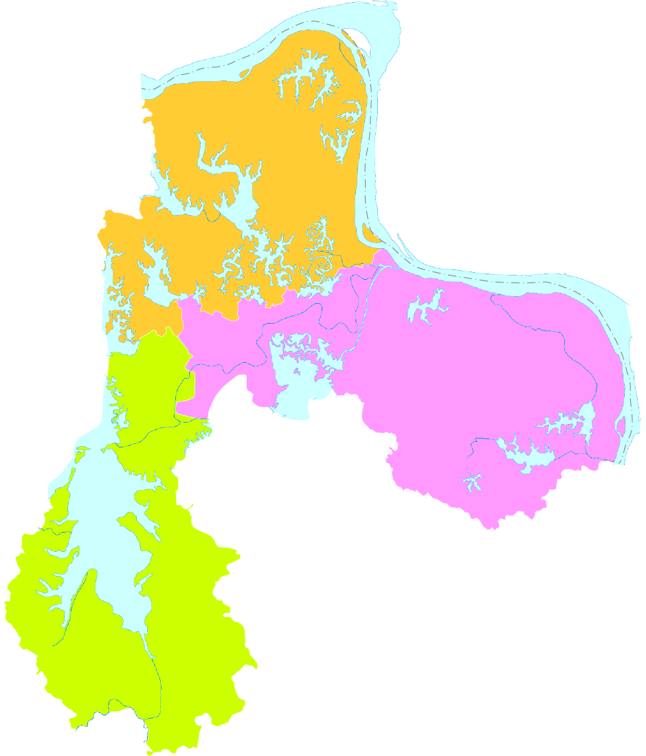 administrative division of Ezhou City, Hubei, China